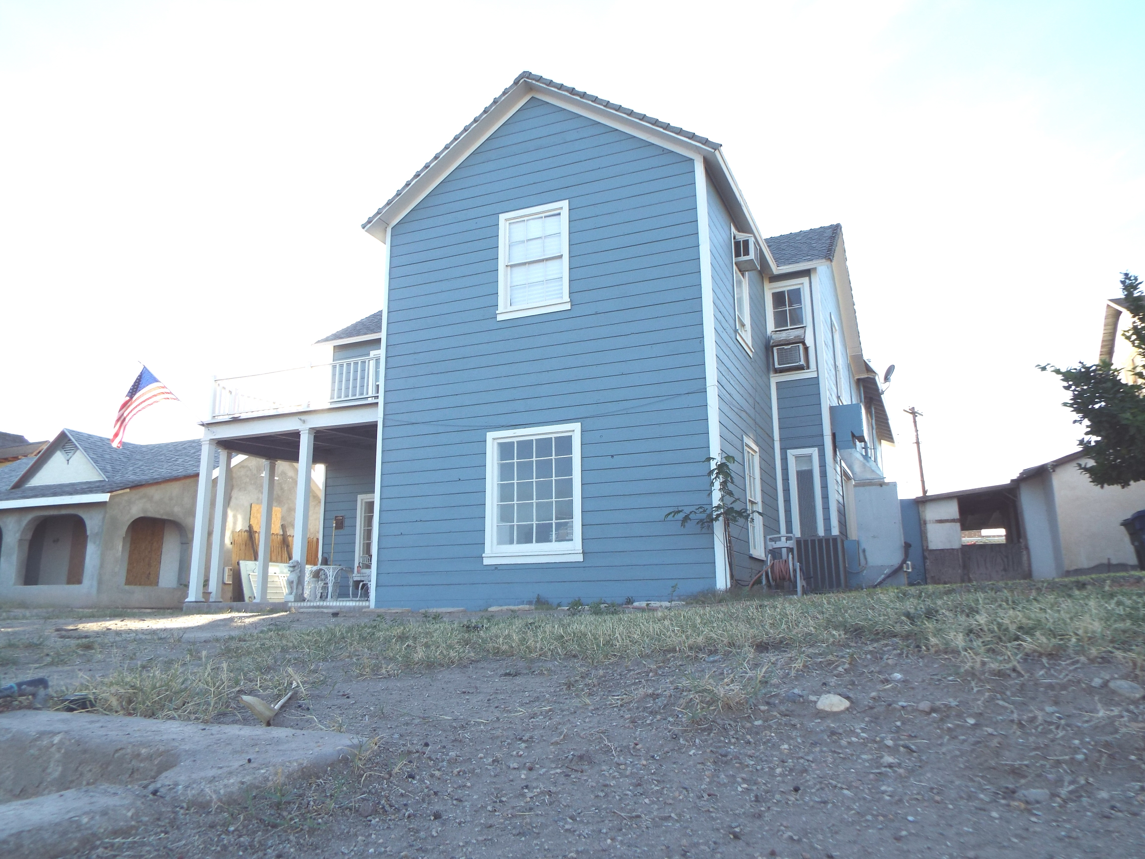 The Jerry Kent House – Built in 1900 and located at 450 3rd Ave. in Yuma, Az . It was listed in the National Register of Historic Places on December 7, 1982.